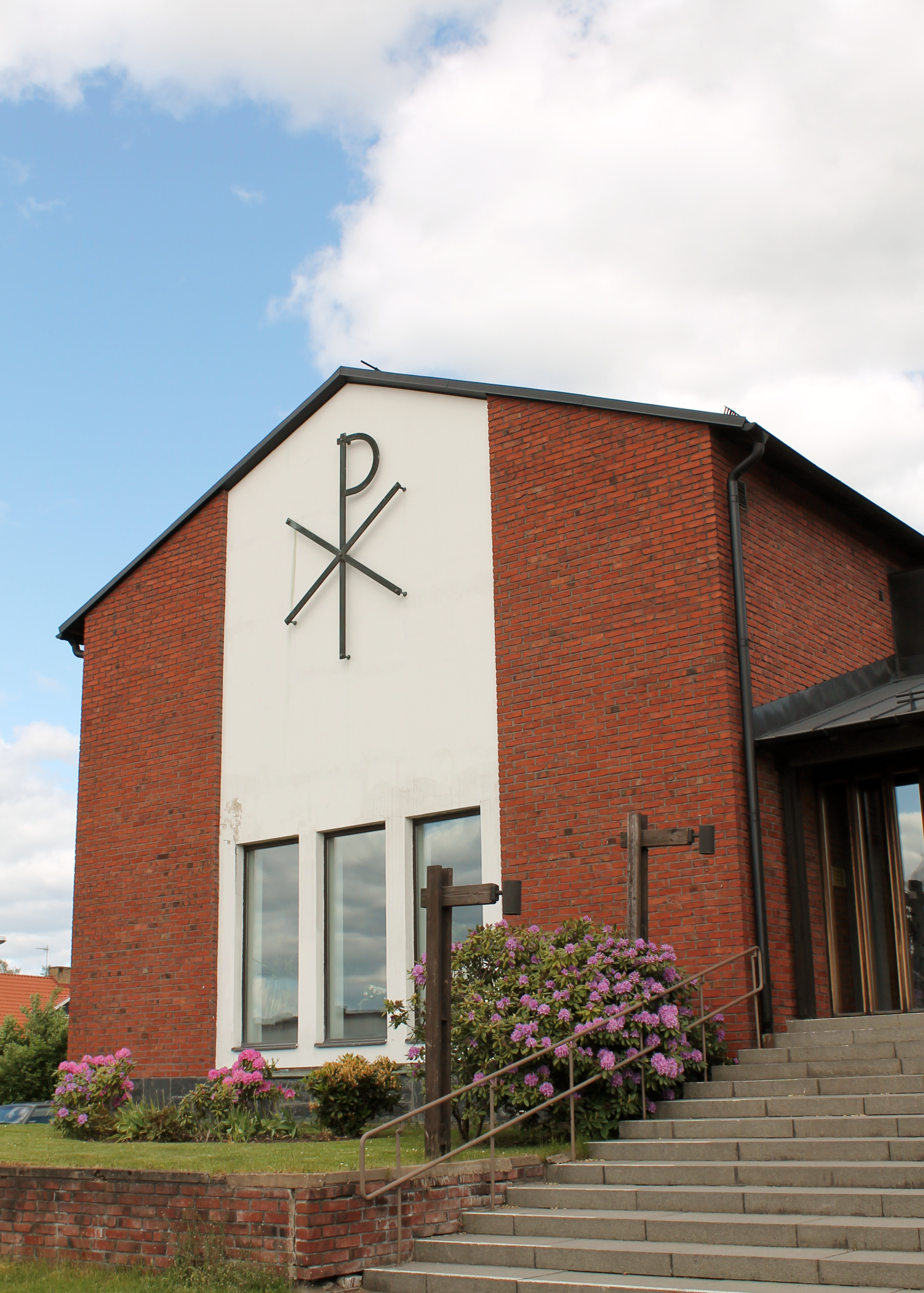 Västrabo church in Växjö